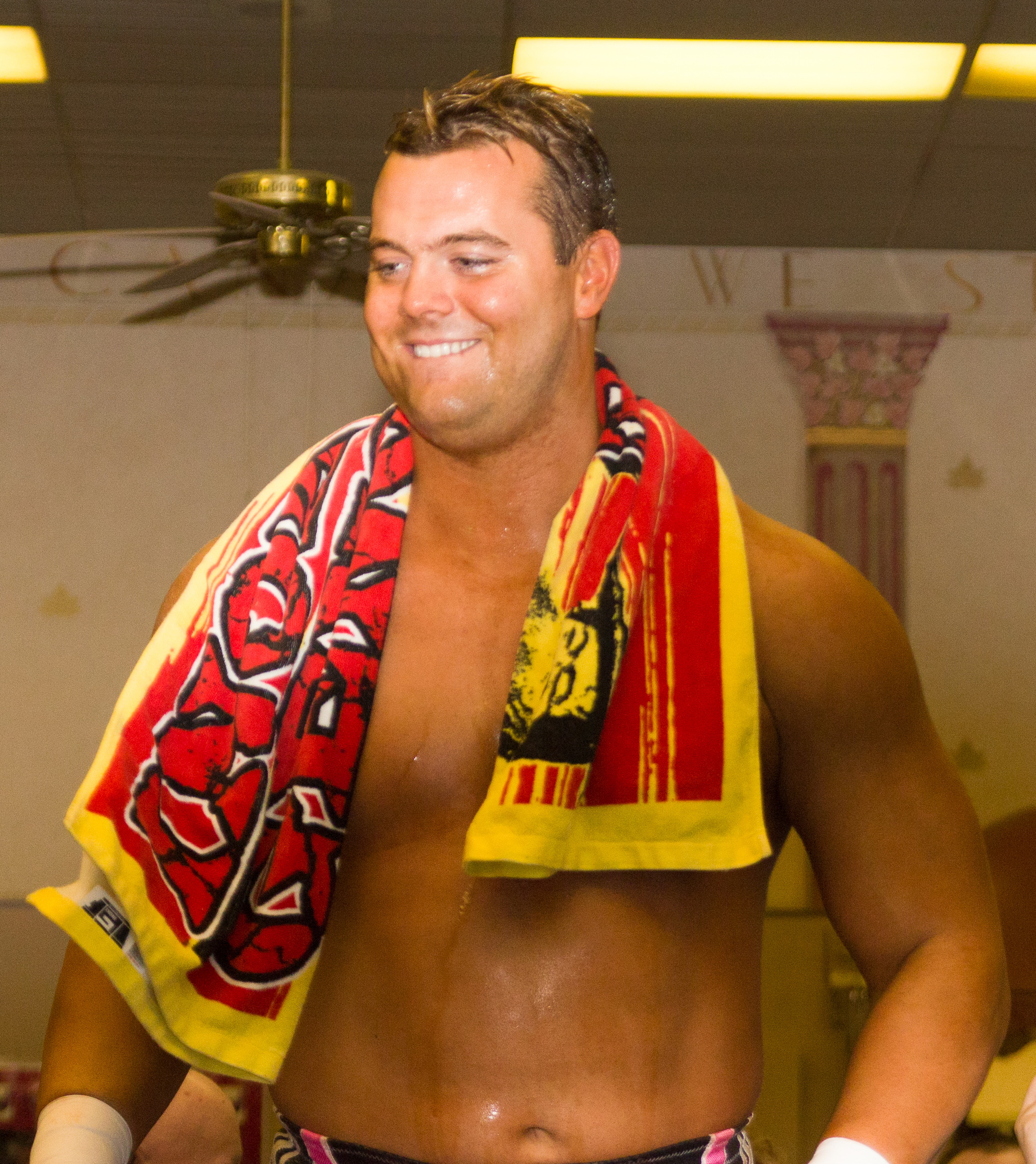 Professional wrestler Harry Smith making his way to the ring at a Stampede Wrestling show in Barrie, ON